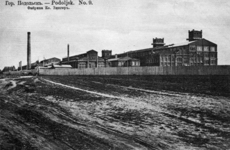 Singer Sewing Machines factory in Podolsk, Russia. Established 1900, production commenced in 1902.